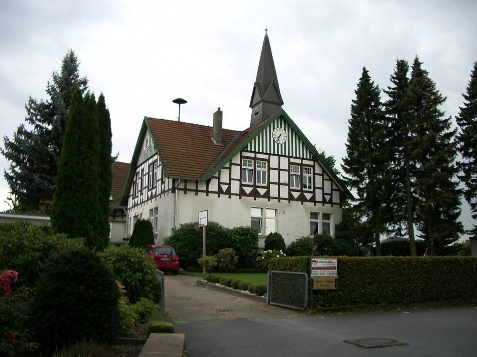 Protestant kindergarten in Westerenger